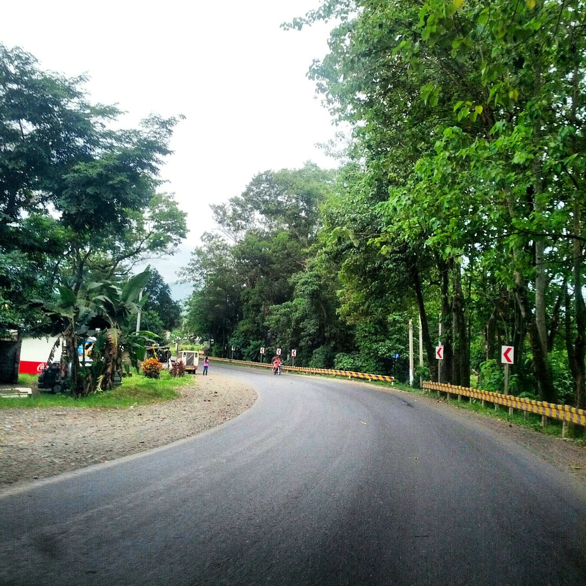 A view of a curve section of Sayre Highway approaching the Lumbo hill of Barangay Lumbo, Valencia City, Bukidnon.